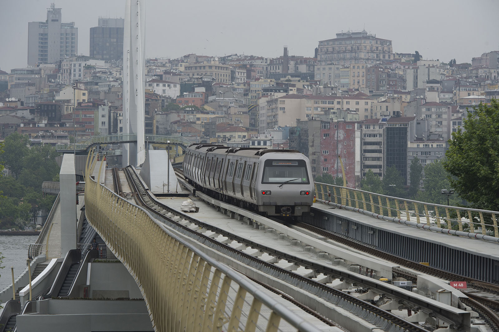 Picture taken from about where the tunnel from the Yeni Kapi side comes into the open air.